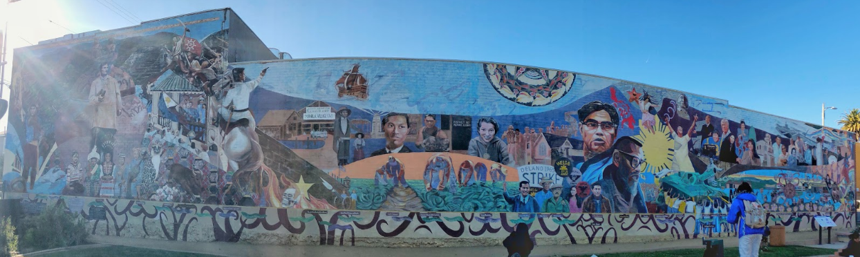 The Filipino American mural in Unidad Park promoting ethnic solidarity and the fight for historical inclusion of the ‘forgotten’ or ‘invisible’ Filipinos in American history.